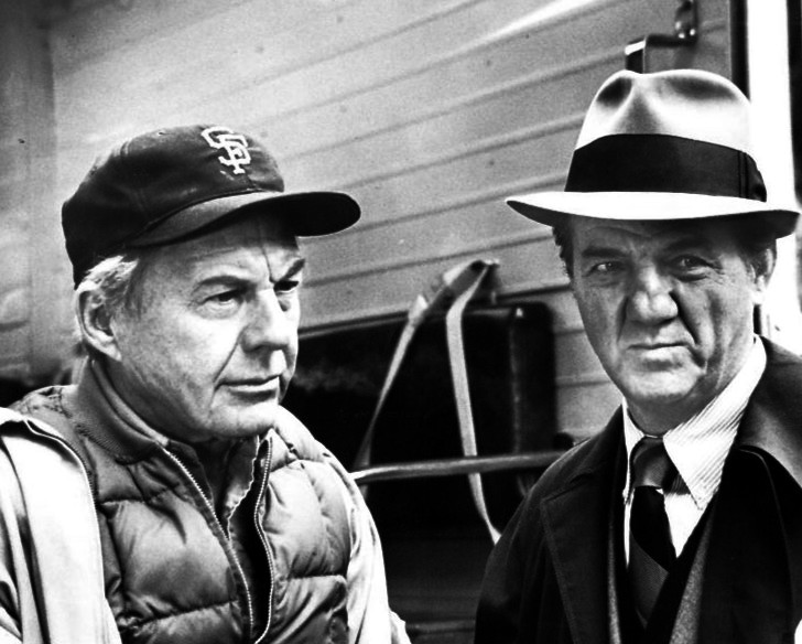 Publicity photo from the television program The Streets of San Francisco. Pictured are Karl Malden (Mike Stone) and David Wayne.